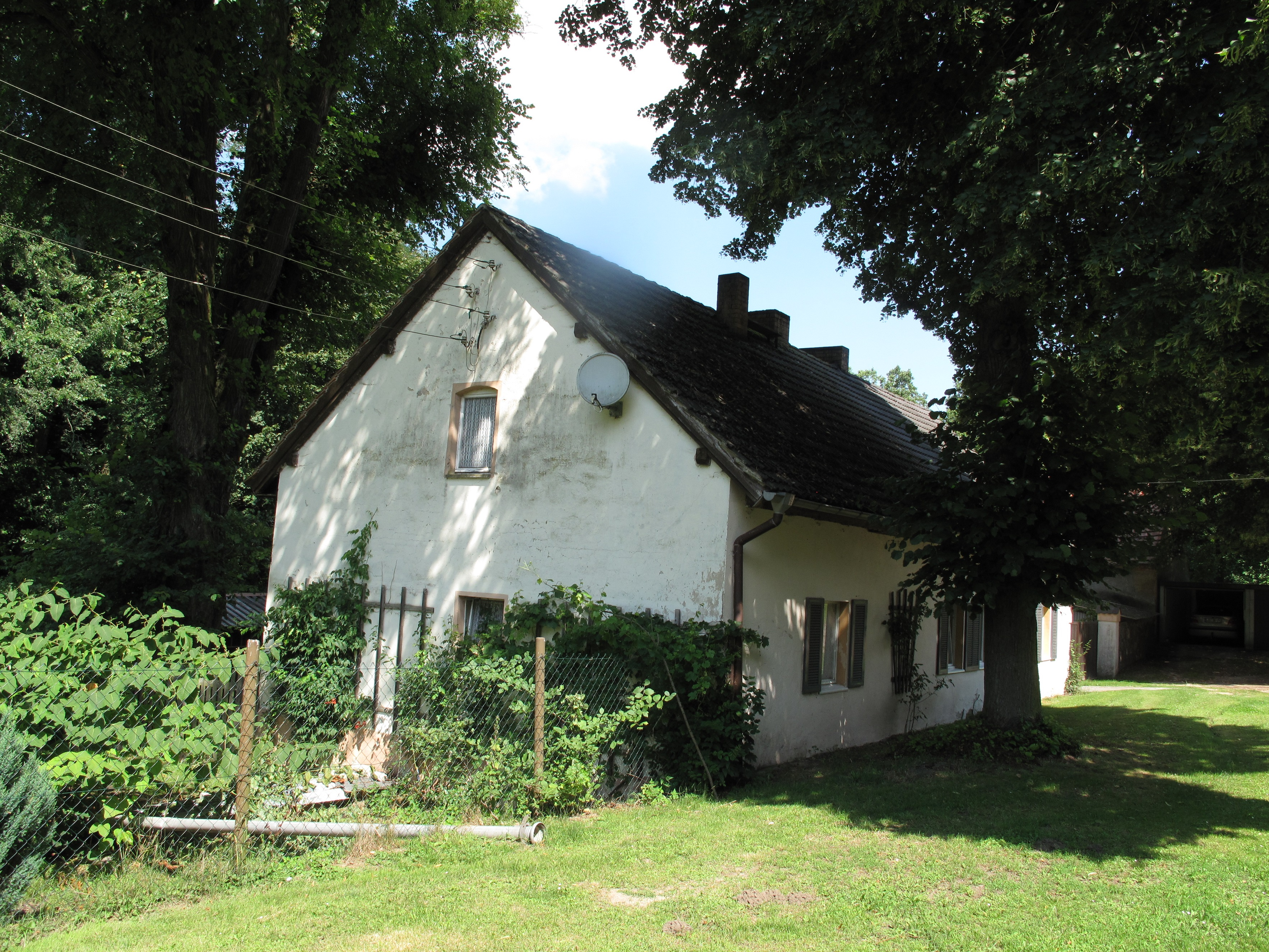 Former Grundmühle, one of the three historical watermills of the Blabbergraben, at the southern shore of the Lindenberger See. The mill was pulled down in 1927, its area is still inhabited. The Lindenberger See is a lake in the village Lindenberg, a part (german: Ortsteil) of the municipality Tauche in the District Oder-Spree, Brandenburg, Germany. The lake covers 6 hectare. The long-drawn groove lake is, seen from the north, the second water of a five-part chain of lakes, which is connected by the Blabbergraben. The Blabbergraben drains the lakes to the south into the river Spree.